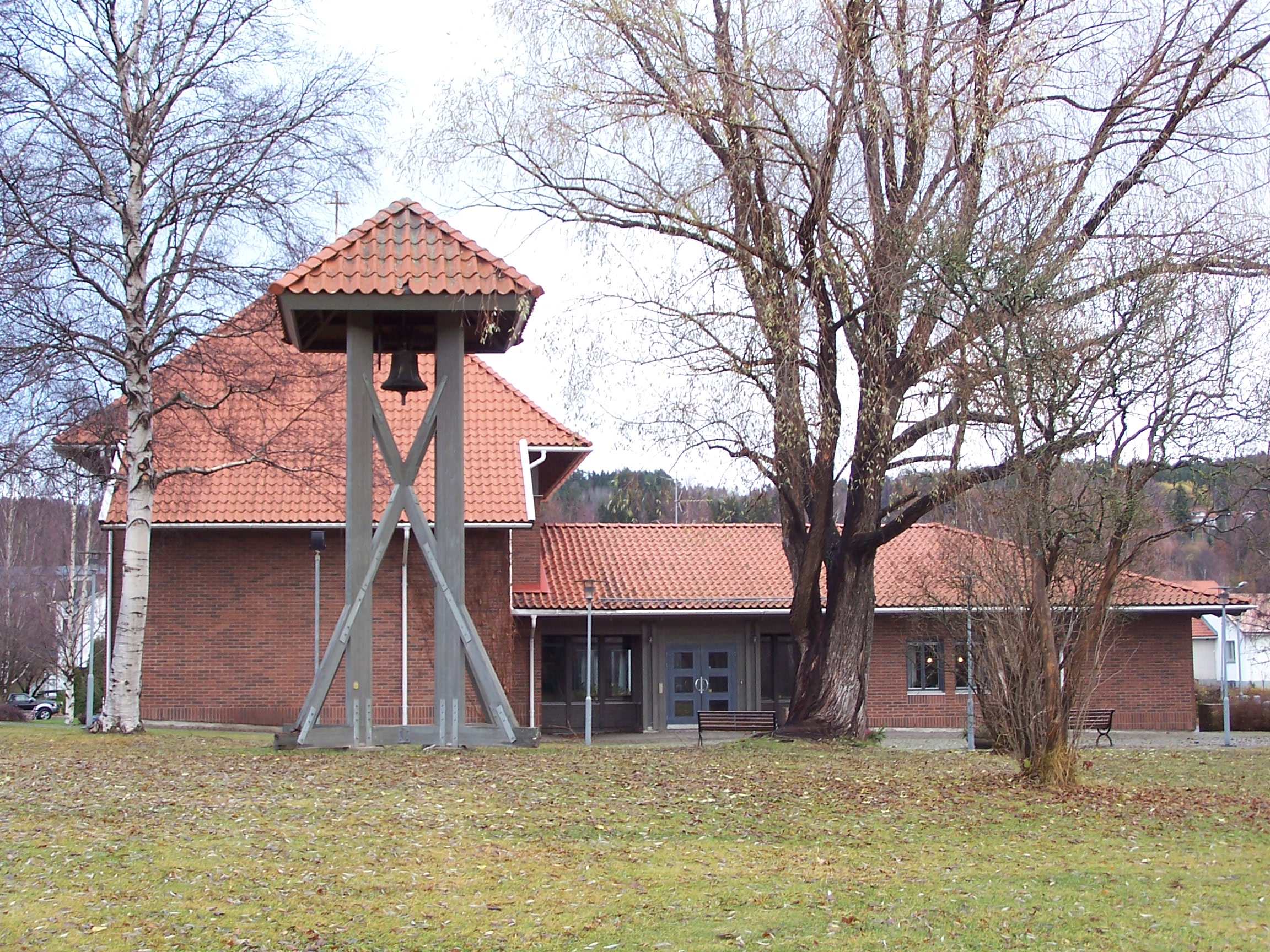 Granlo church in Sundsvall, Sweden